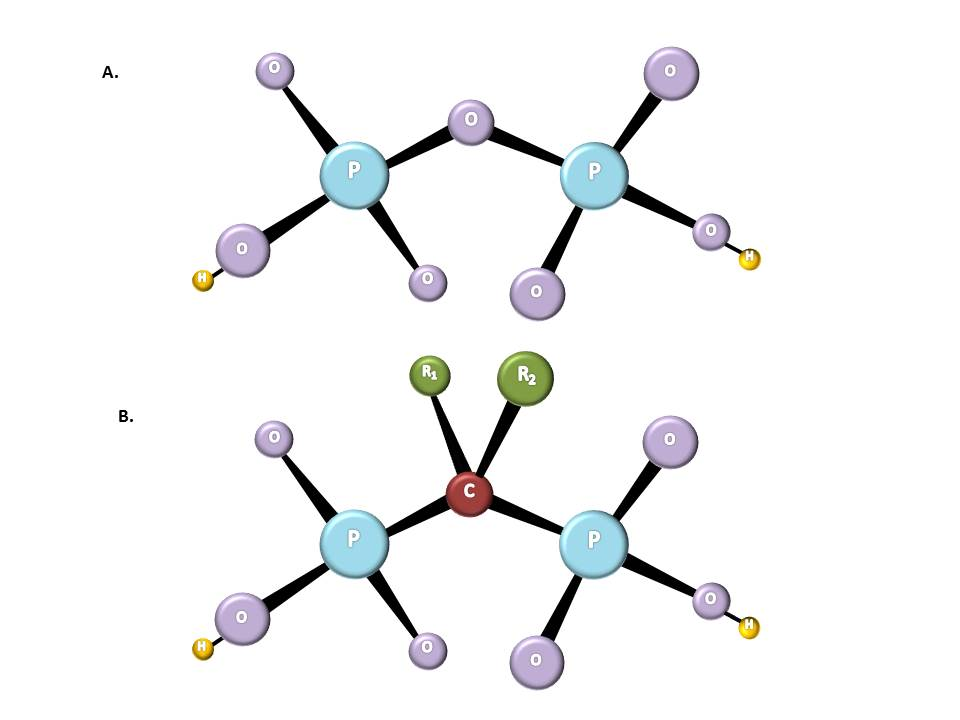 Chemical structure of pyrophosphate (A) and bisphosphonates, (B), a class of drugs which are synthetic pyrophosphate analogies. P = phosphorus, O = oxygen, H = hydrogen, C = carbon, R = side chain.